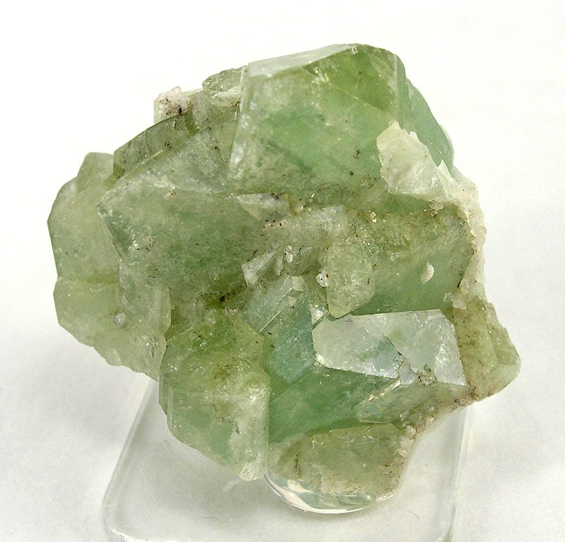 Herderite Locality: Shigar Valley, Skardu District, Baltistan, Northern Areas, Pakistan (Locality at ) Size: miniature, 3.8 x 3.5 x 2.5 cm Herderite GREEN herderite from a small find, or series of small finds, that has been ut now for about 7 years. i LOVE this material, which to me seems unique among herderites for color. This is a good-sized plate with sharp lustrous crystals to 1.5 cm and a good display face (though it is contacted at the edges).